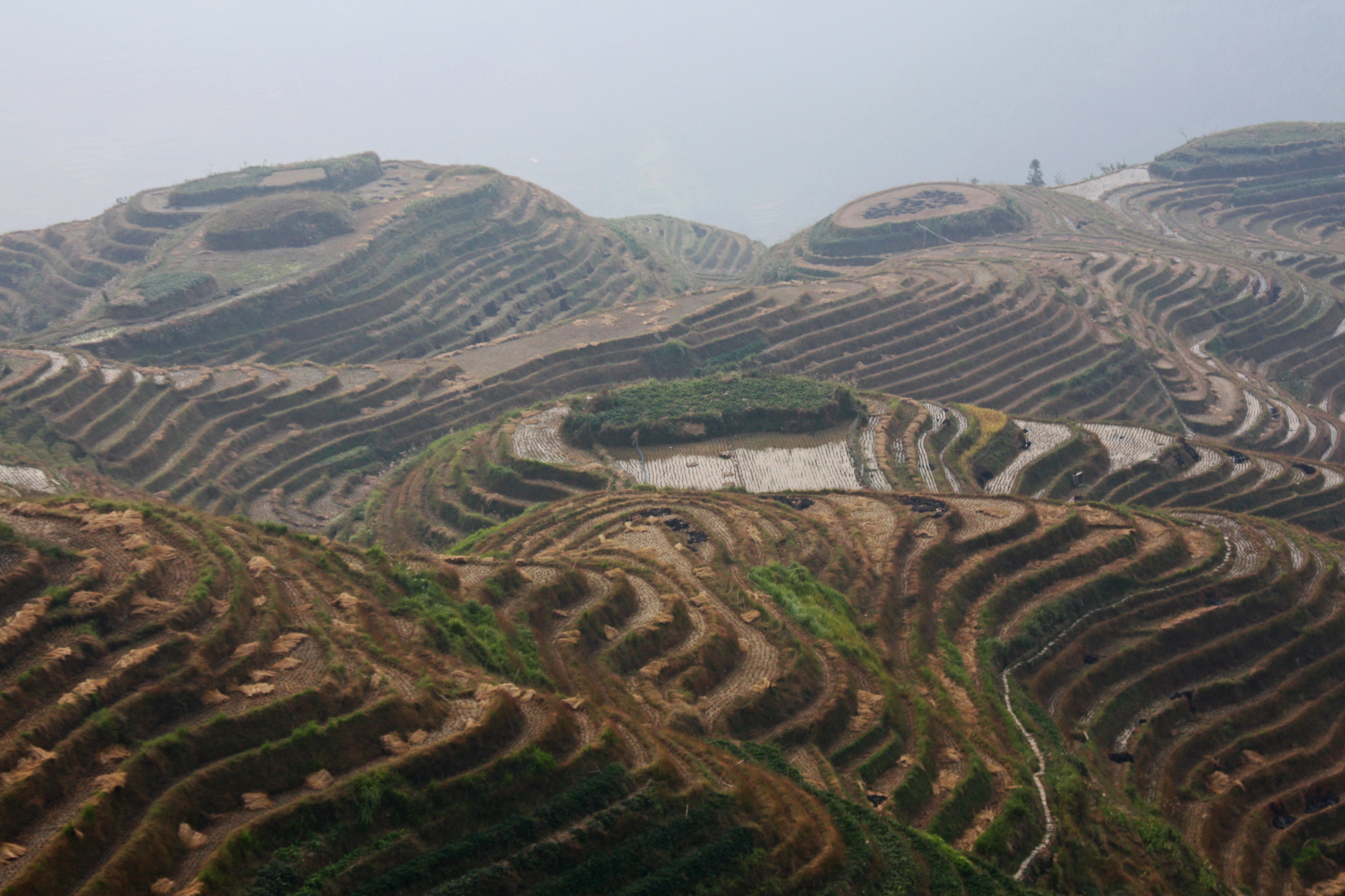 Rice terraces